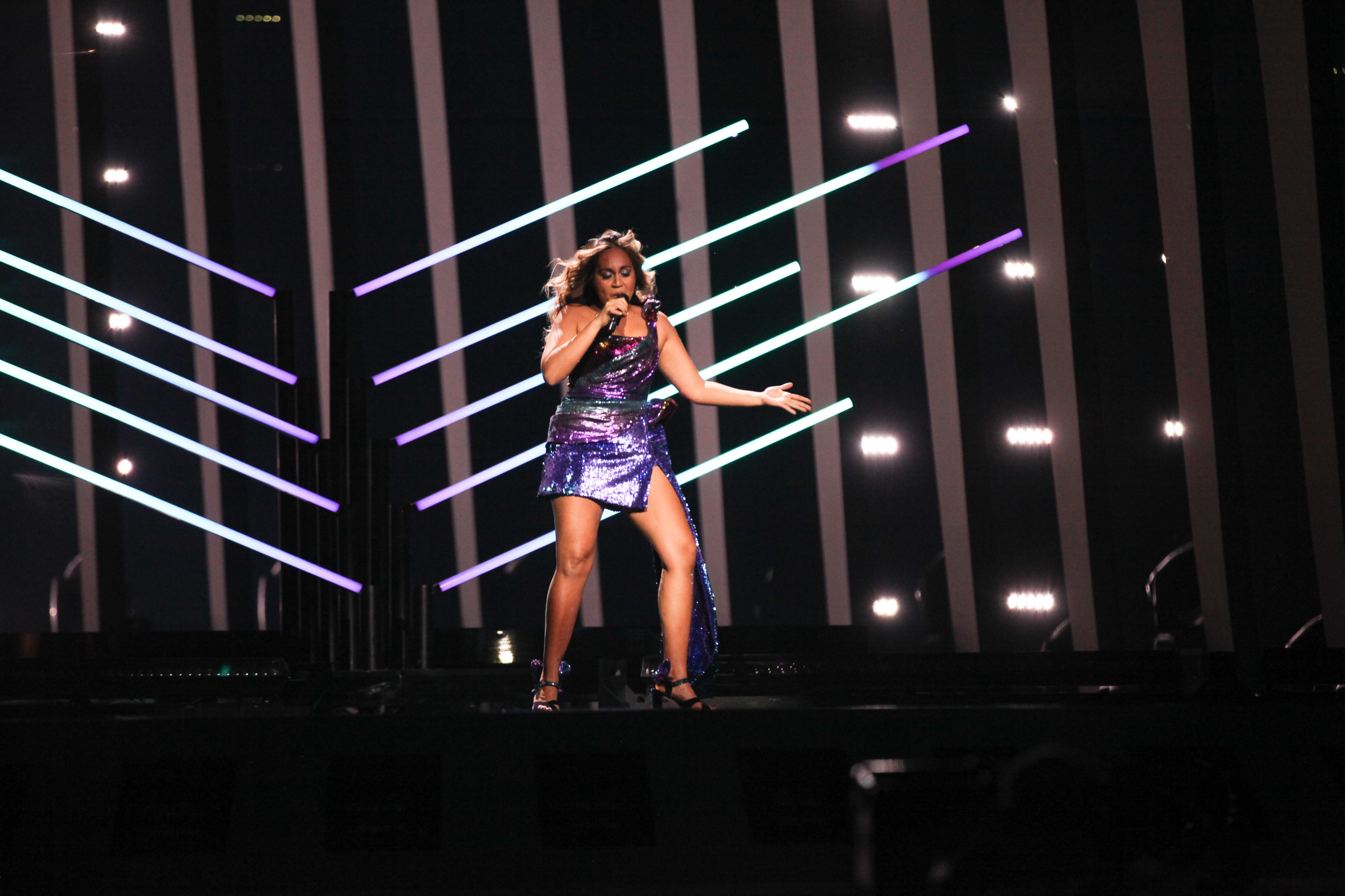 Jessica Mauboy representing Australia with the song "We Got Love" during a rehearsal before the second semi final of the Eurovision Song Contest 2018 in Lisbon.